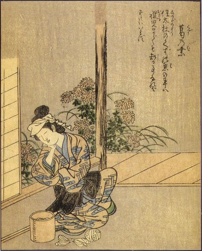 Kuzunoha (葛の葉) from the Ehon Hyaku monogatari (絵本百物語)